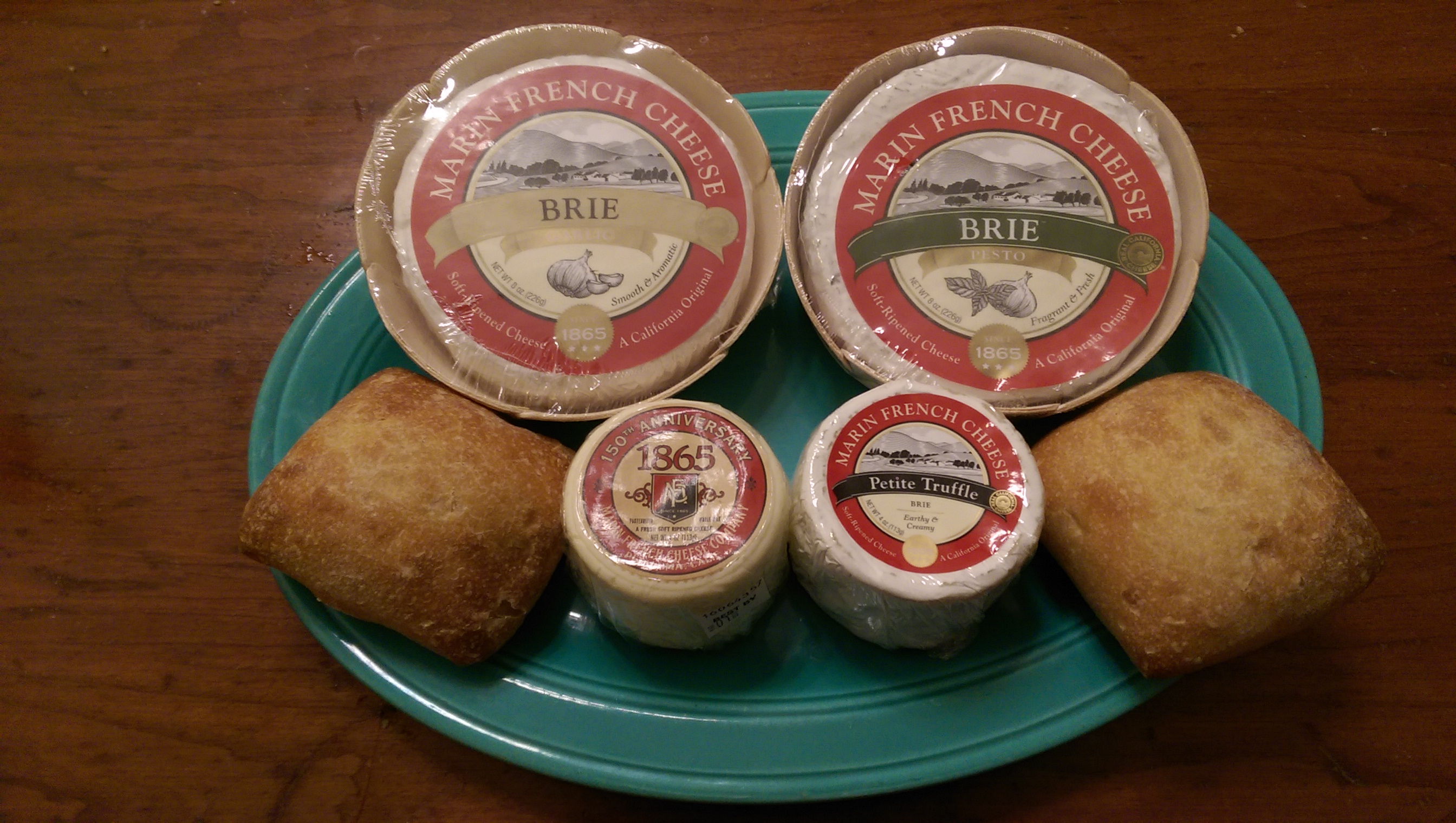 An assortment of cheeses made by Marin French Cheese Company. Photo by Jim Heaphy.